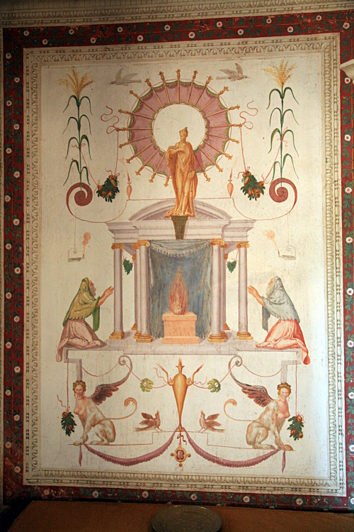 Villa Emo. From the west room of the grotescues. Frescoes by Giovanni Battista Zelotti.